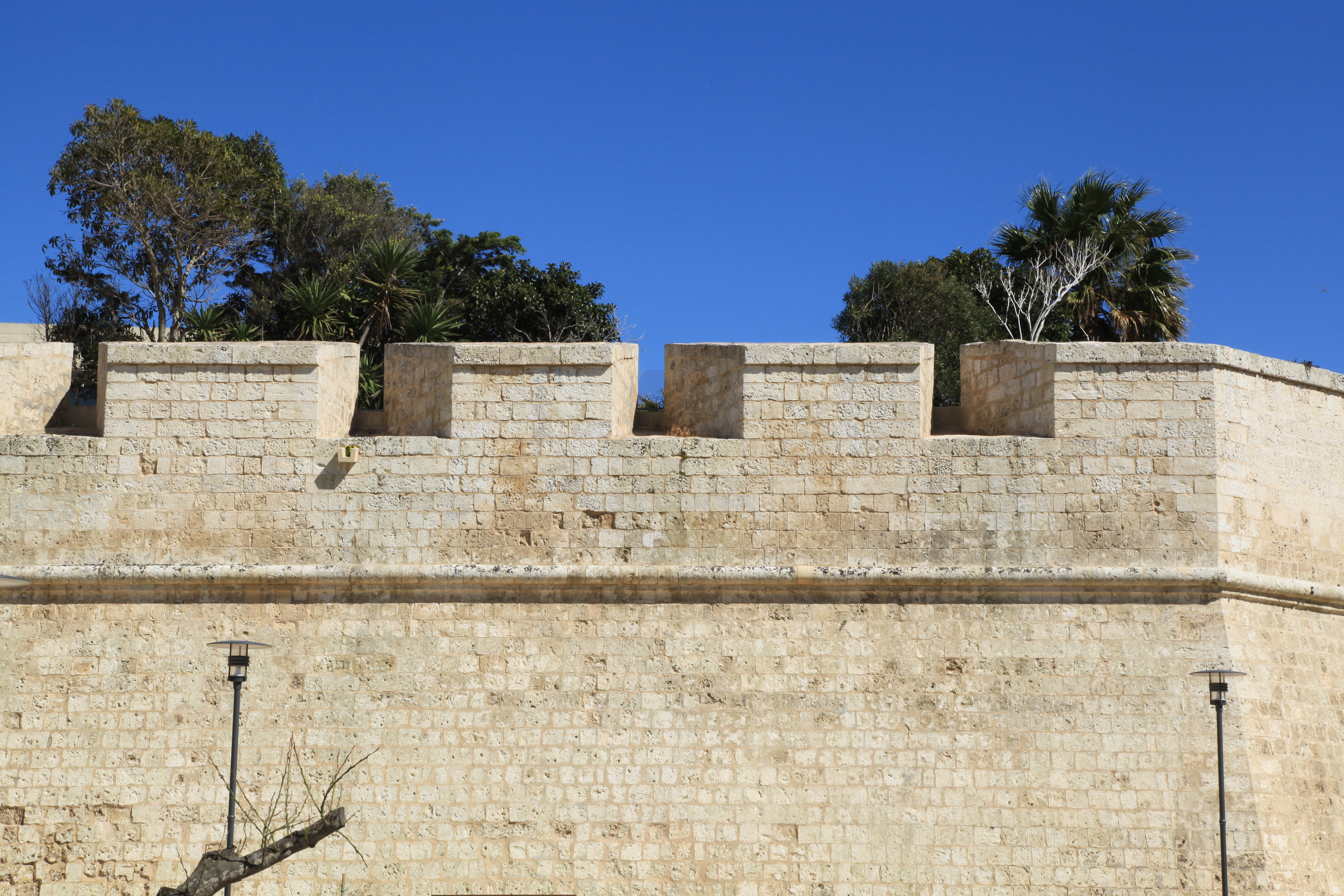 Il-Foss tal-Imdina in the Lorenzo Calleja ditch in Mdina, Malta